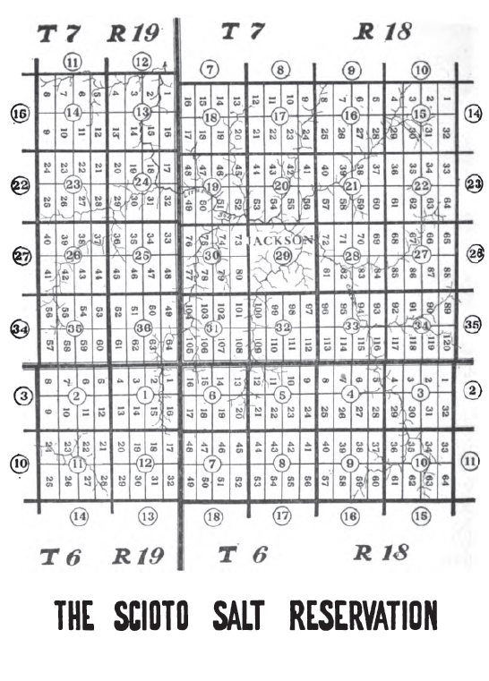 This map is of a land tract in Ohio associated with the Salt Reservations of the Ohio Lands.